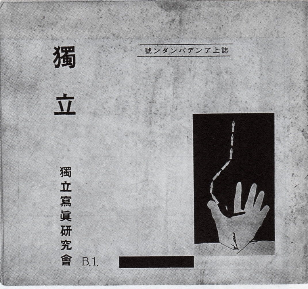 the cover of Dokuritsu Journal January 1932 Cover photo, "The Developing Thought of a Human 2, Finally Departing an Hour before Dusk" Cover photo:w:Kansuke Yamamoto(Surrealist)